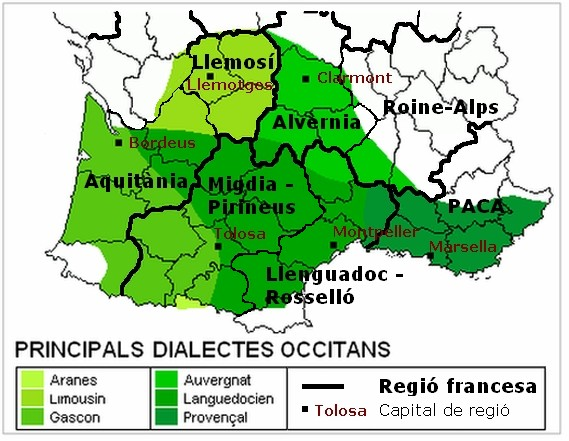 This is a modification of a map of dialects of Occitan made for an article about Occitan gastronomy. Pay attention, as "vivaro-alpin" dialect zone is not mencioned in the article, it has been erased of the map (may be it is time to put it in the article and the map!) whereas Aran Valley, which belongs to Gascon dialect, is marked separately because it has a special interest, as an Occitan zone in the Catalan Countries.